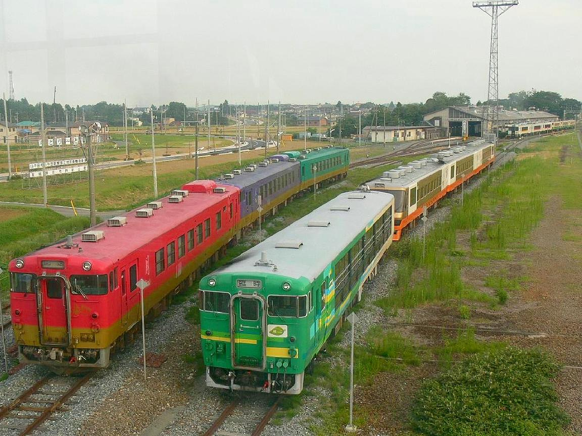 East Japan Railway Kogota-train-base(Japan,Miyagi,Misato-town). It takes a picture of the Kogota train base premises of the Touhoku Line of East Japan Railway Passenger Railways from a free passage in east and west where Kogota Station is stepped over. JR東日本旅客鉄道東北本線の小牛田運輸区構内を 小牛田駅を跨ぐ東西自由通路から撮影。 手前に写っている車両は、ここの運輸区に配置されるジョイフルトレインの 「こがね」･「ふるさと」･「びゅうコースター風っこ」である。